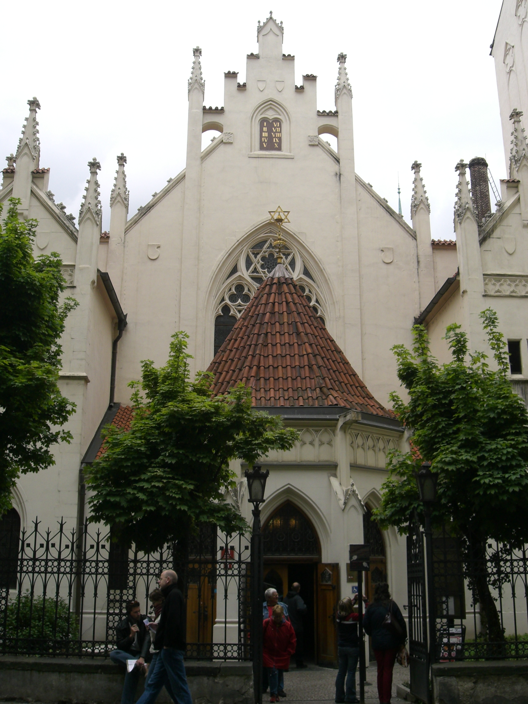 Maisel Synagogue in Prague, Czech Republic.